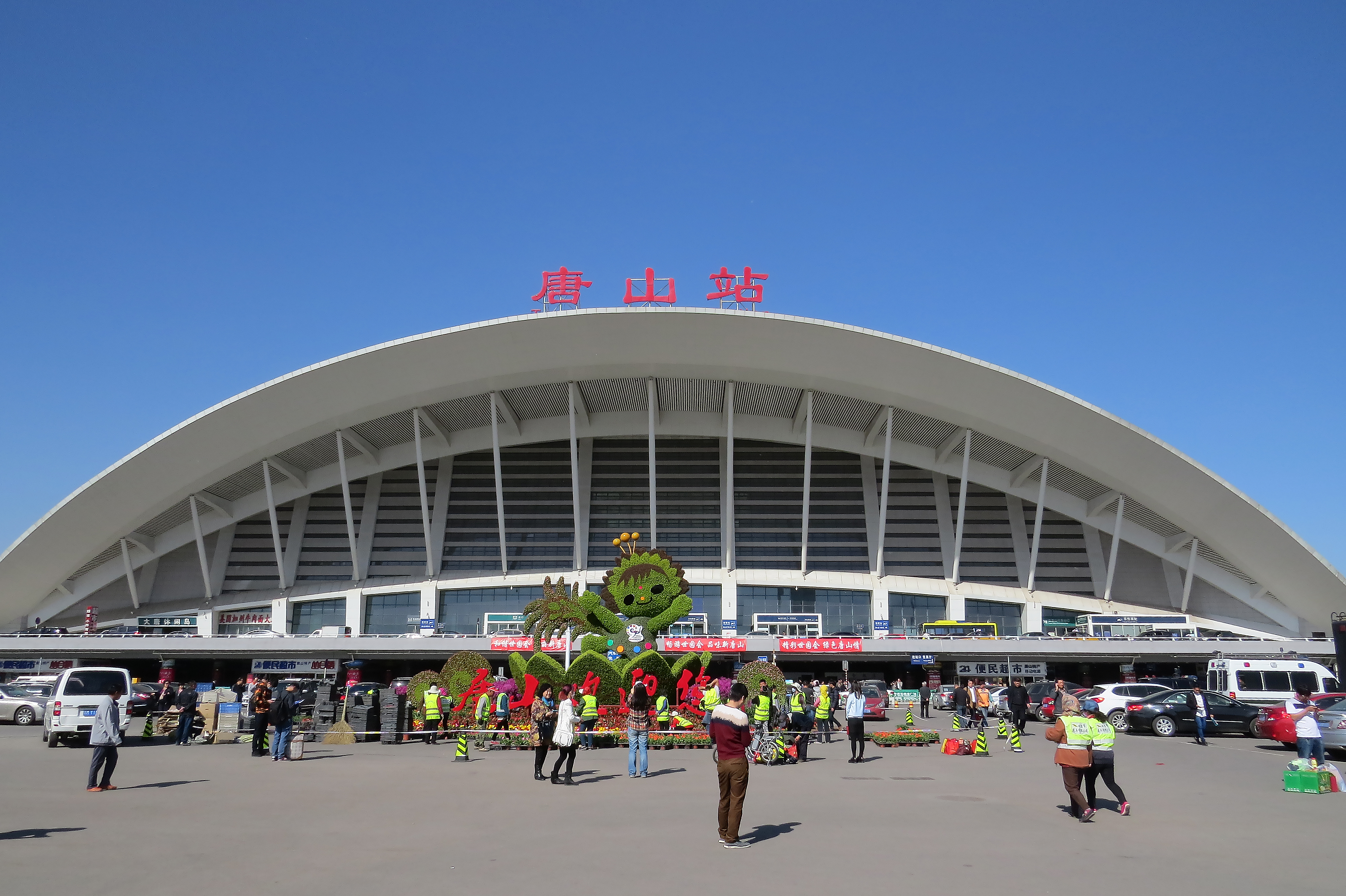 Taken after D6611.